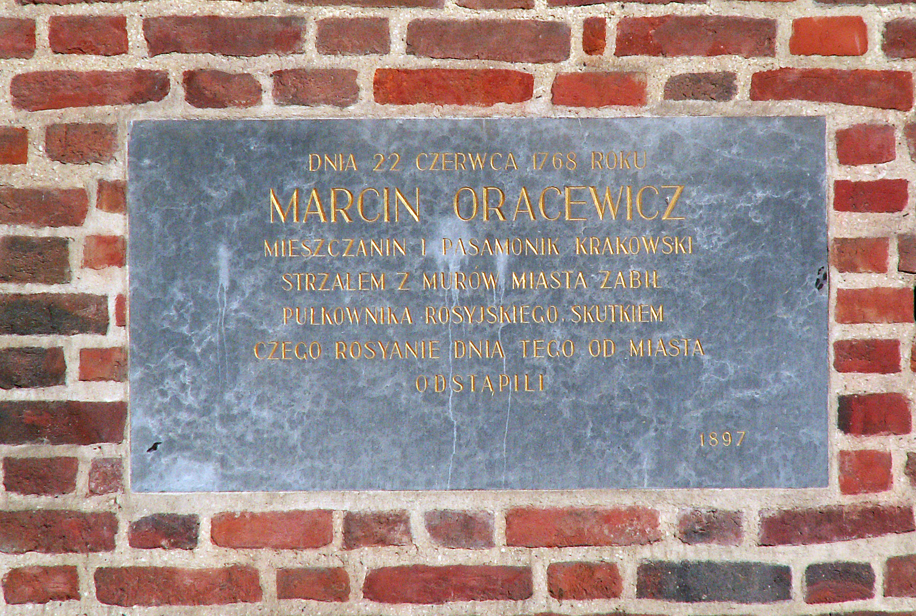 Marcin Oracewicz commemorative plaque, Kraków barbican, Planty Garden, Old Town, Krakow, Poland